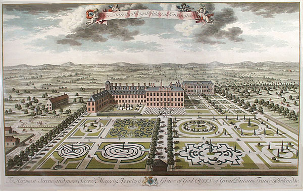 Kensington Palace from the south by Jan Kip. The plate was made for Britannia Illustrata (1707-8) and dedicated to "Her most Serene and most Sacred Majesty, Anne" The plate was reprinted unchanged in 1724. The watercolor tinting is modern. The planting of the parterres was by Henry Wise, but their traditional 17th century layout, of paired plats divided by a central gravel walk, each subdivided in four, appears to have survived from the Palace's pre-royal existence as Nottingham House.